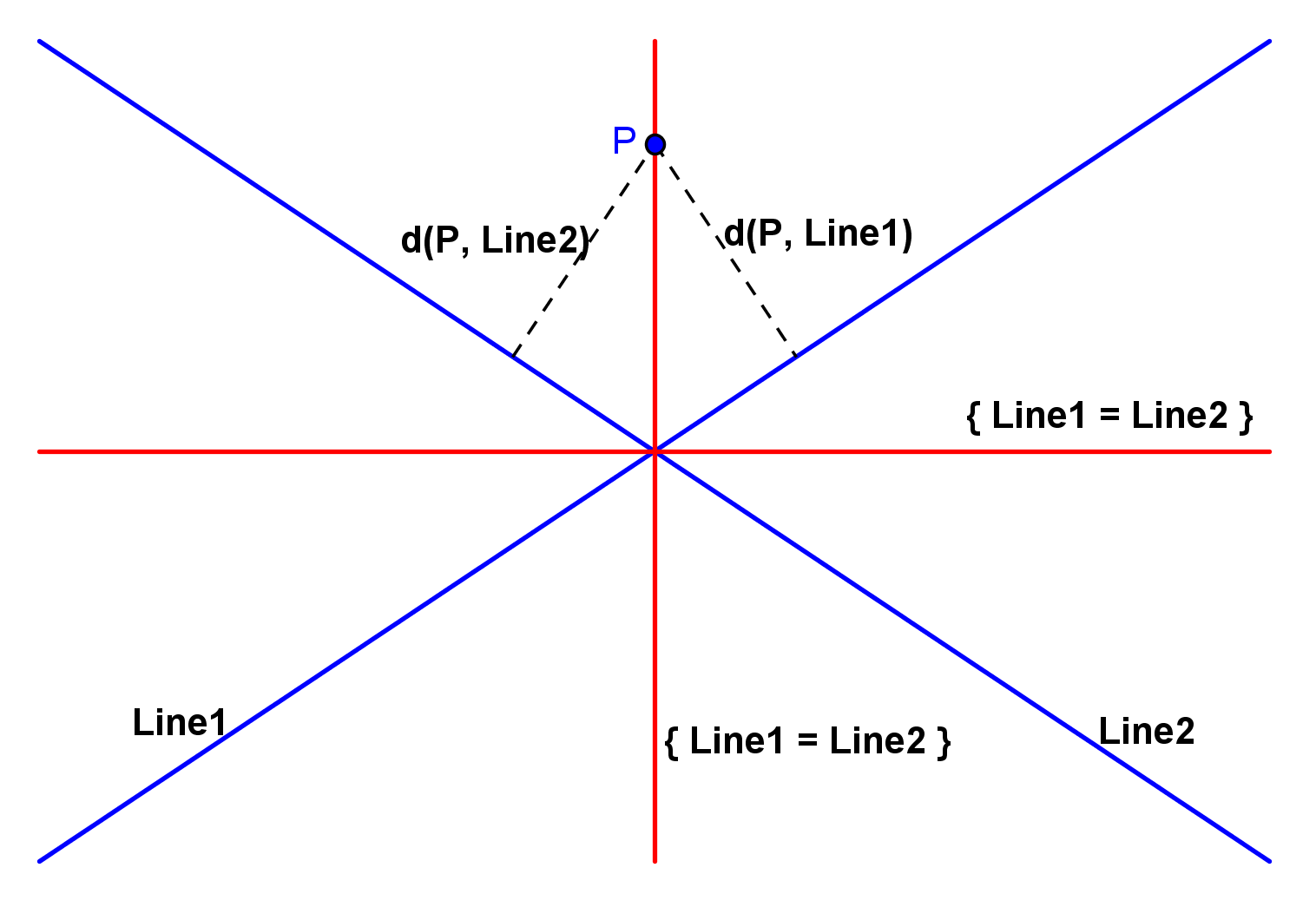 Image showing equidistant set of two straight lines in an Euclidean plane.